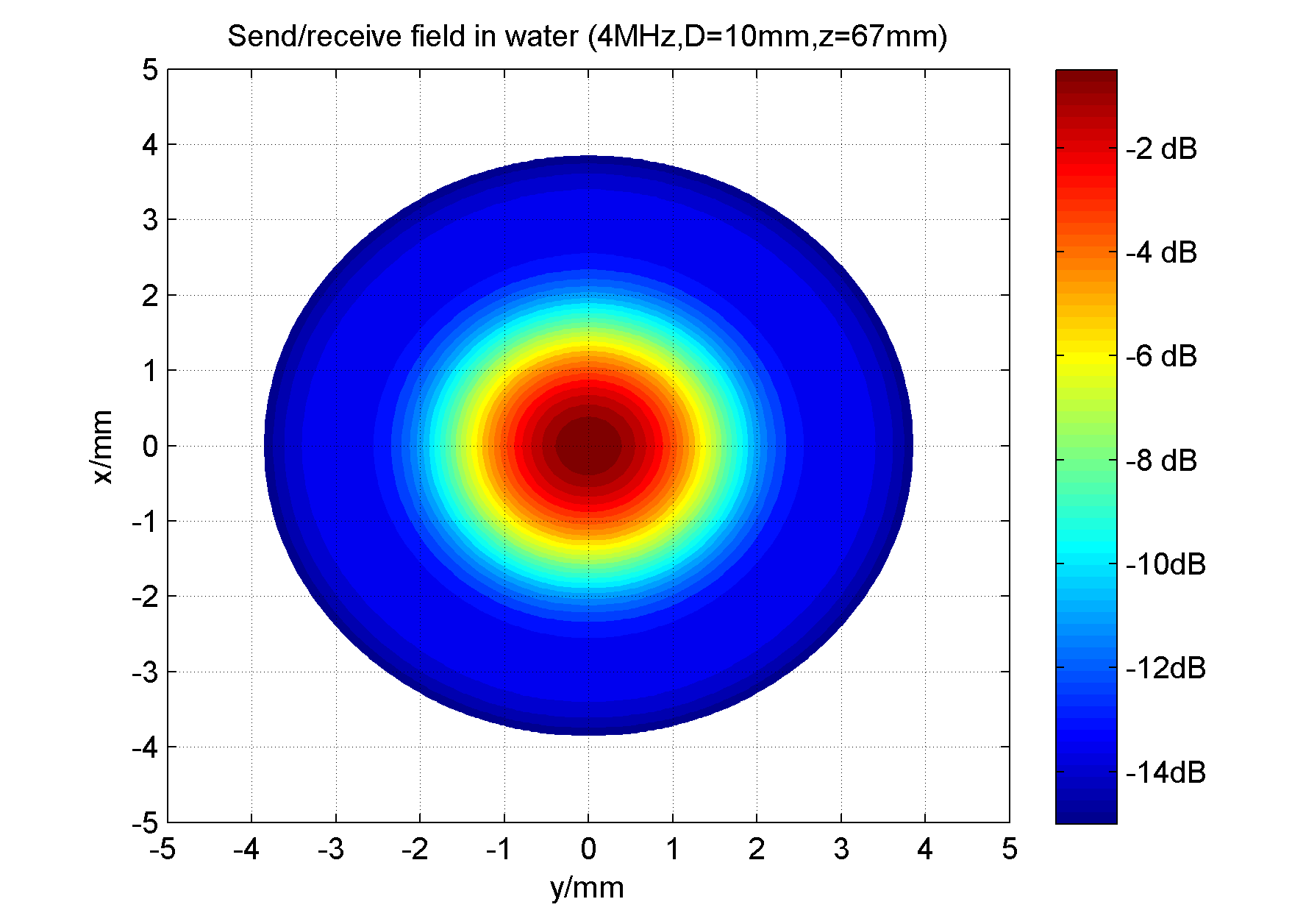 x/y plot of an ultrasonic sound field, transducer diameter 10mm, frequency 4MHz, c=1500m/s (water) at a distance z=67mm (focal zone) as calculated by the Rayleigh-Integral. The plot shows the send-receive field, that means the square p^2 of the calculated sound pressure values p.